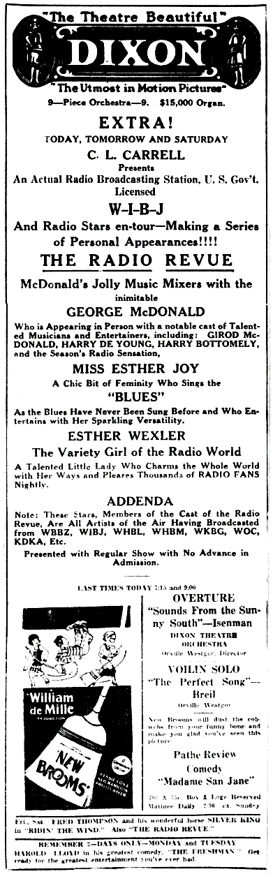 Promotional advertisement for C. L. Carrell's "Radio Revue" program appearing at the Dixon Theatre in Dixon, Illinois, and broadcast locally over Carrell's portable radio station, WIBJ.